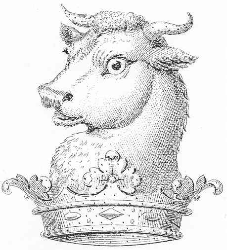 scan of a photocopy from Fairbairn's Book of Crests.Rodolph 13:00, 27 February 2007 (UTC)